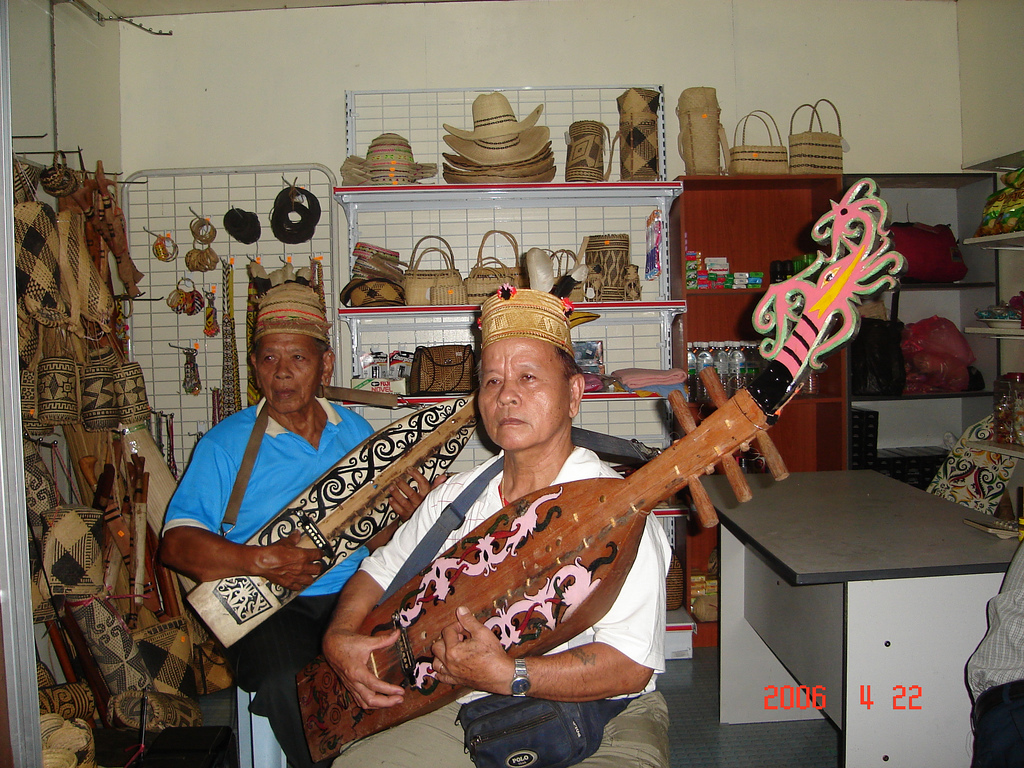 A pair of Sape players.